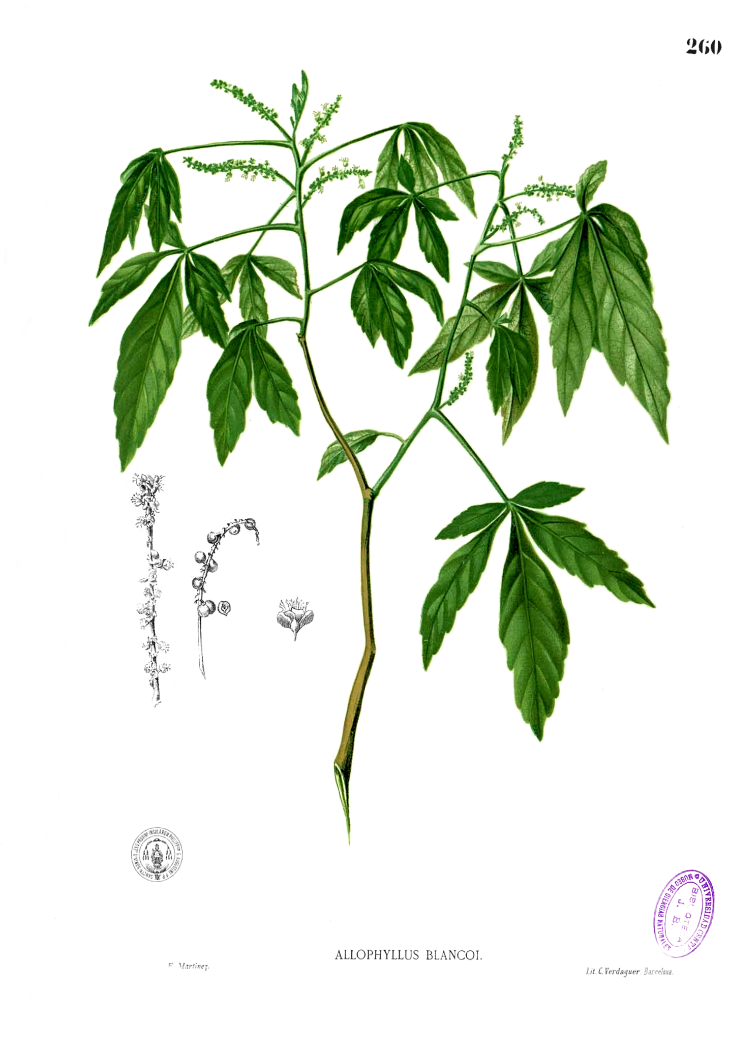 Plate from book